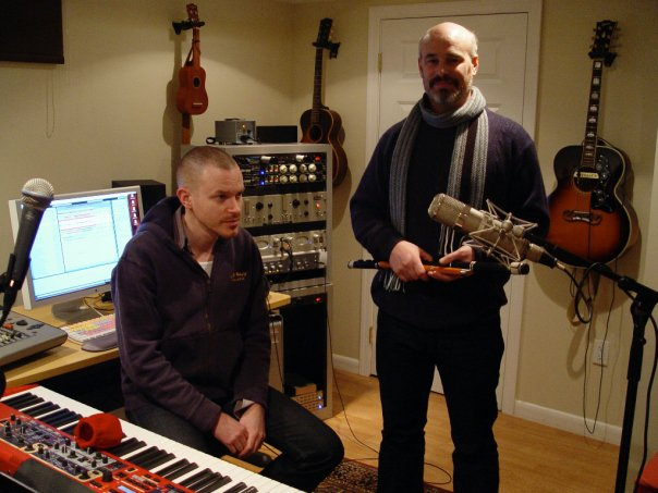 Roy Harter working in his home studio with Colm O'Snodaigh from Irish band Kila.